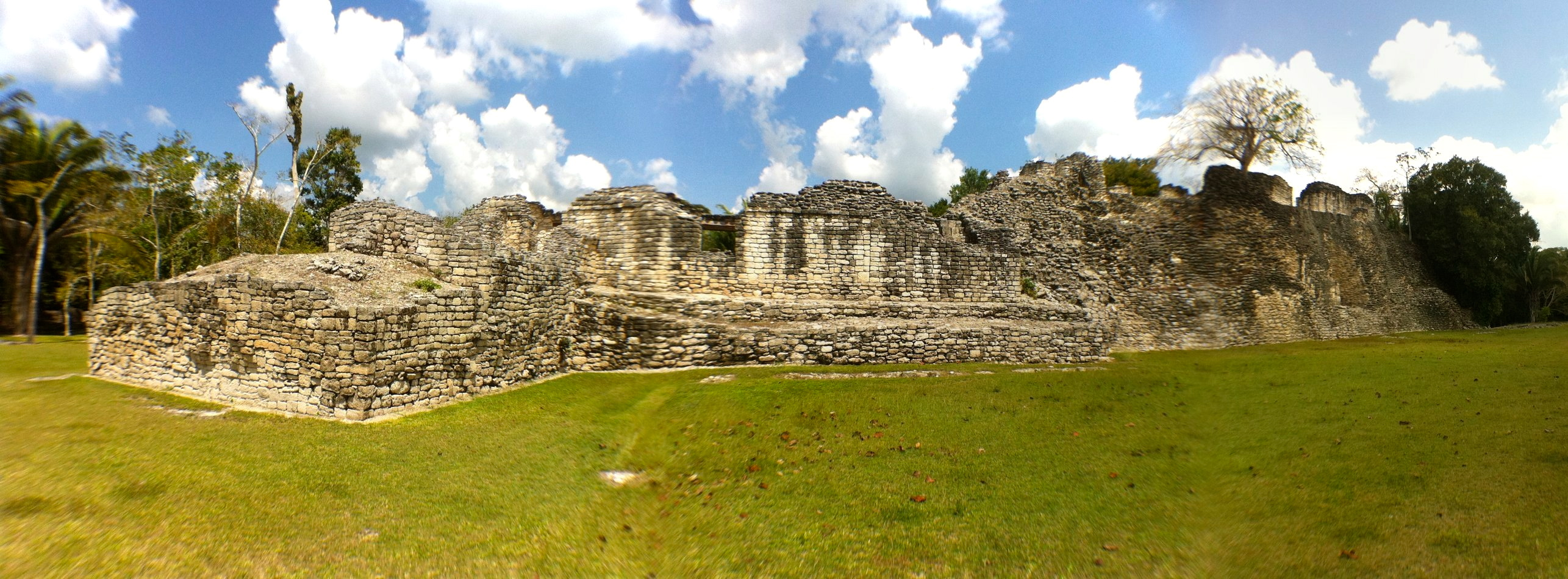 Kohunlich Wide angle Montage